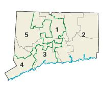 Image adapted from US fed gov't source Category:Congressional districts of Connecticut